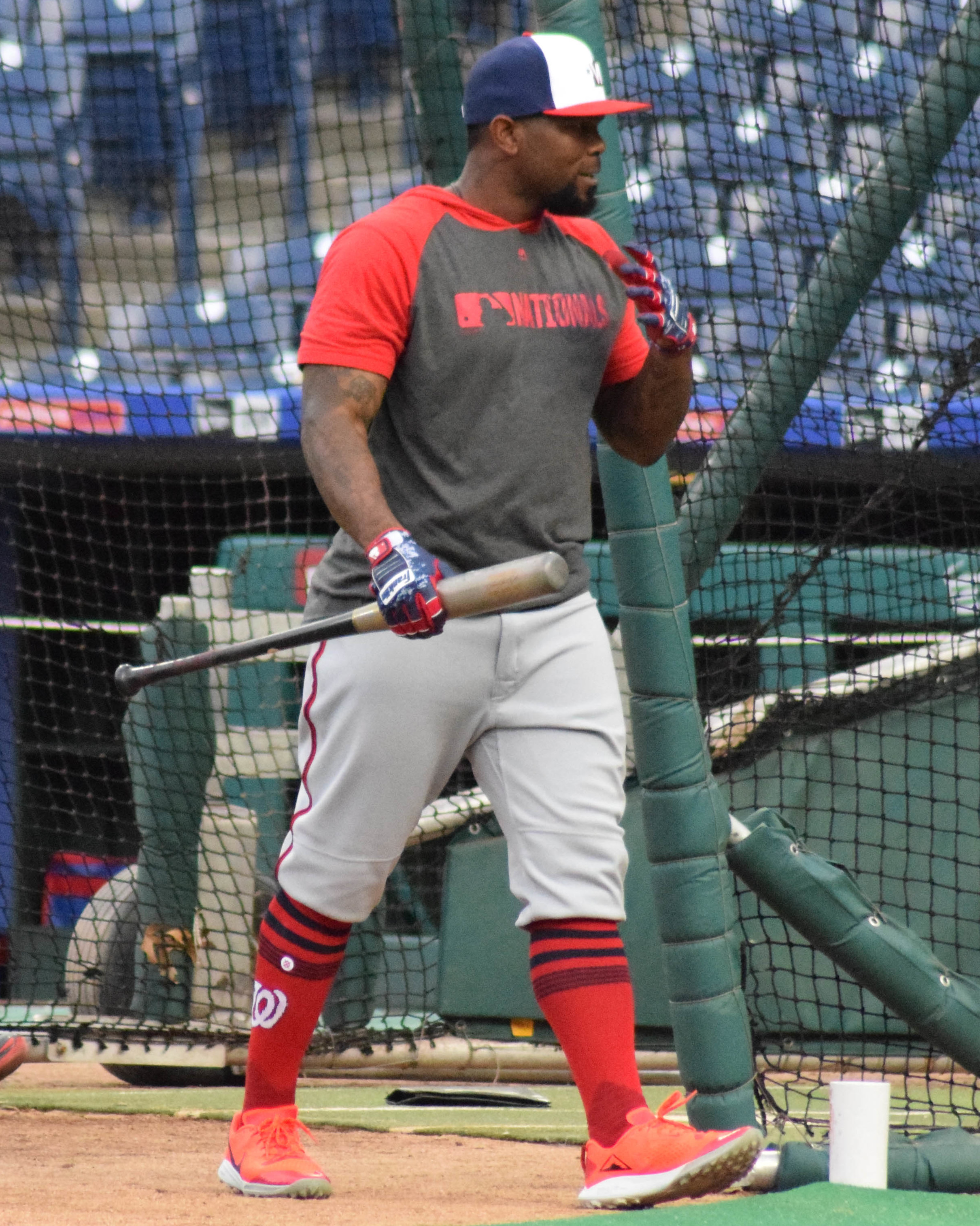 Howie Kendrick of the Washington Nationals during batting practice at Citizens Bank Park in Philadelphia in 2019